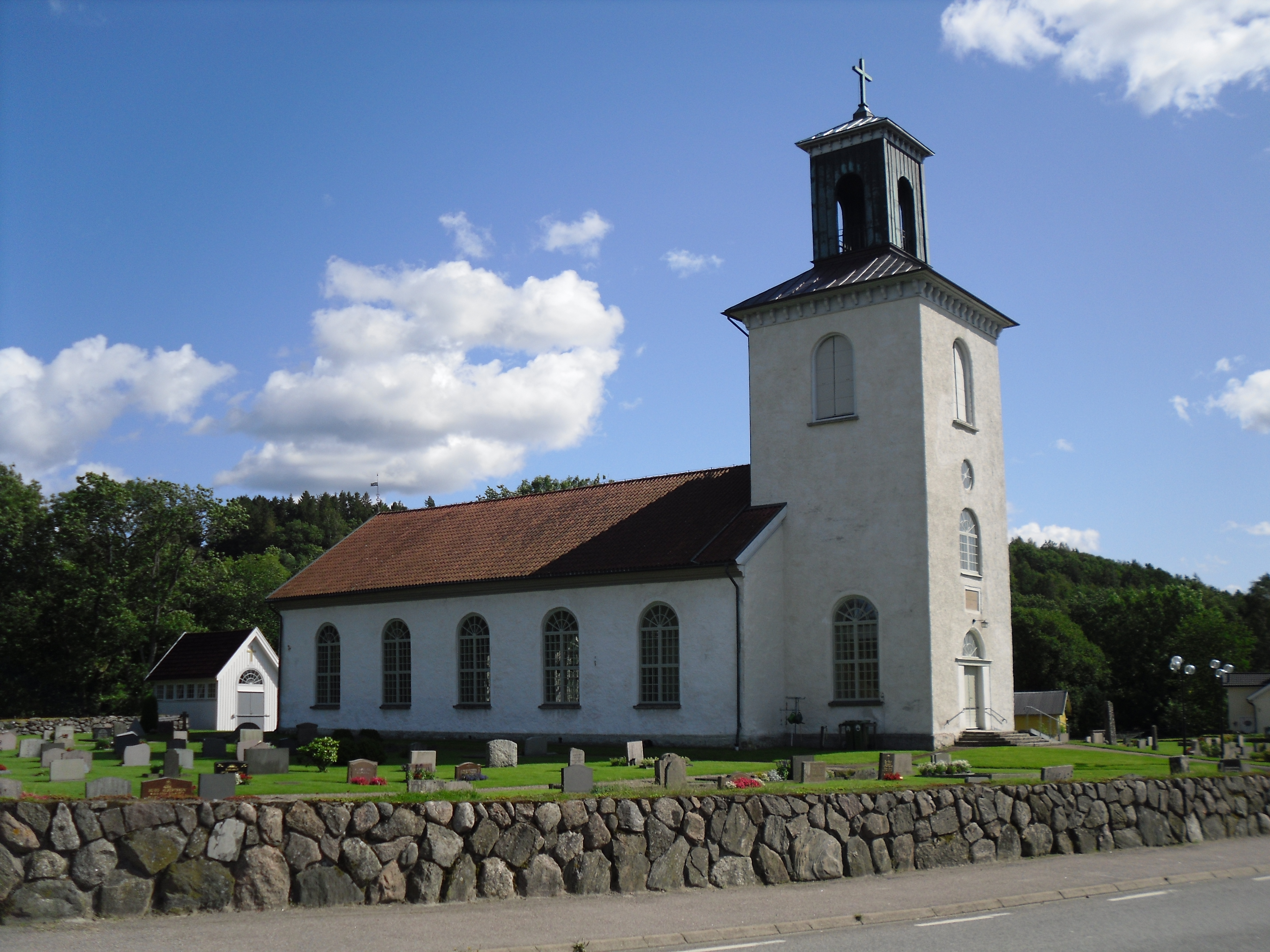 Lödöse Church, Sweden